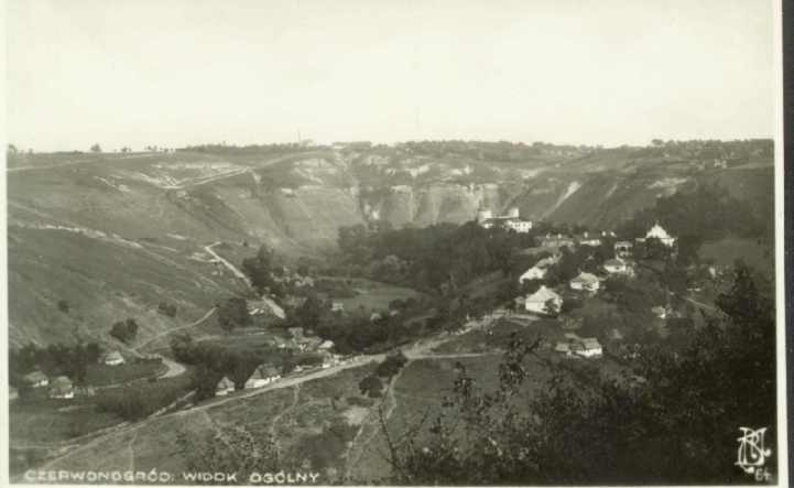 Chervonograd before WWI